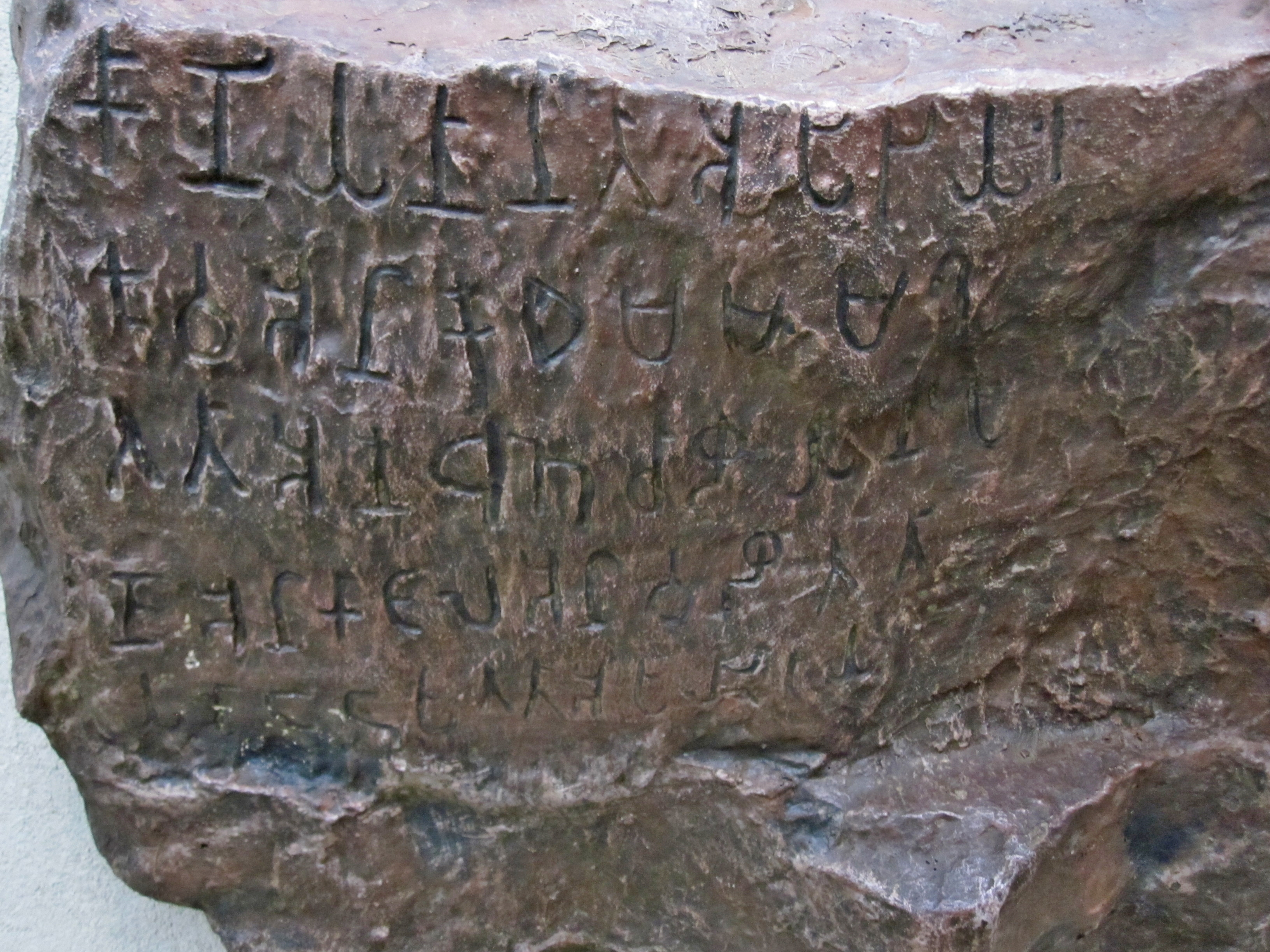 A model of the Mangulam Tamil Brahmi inscription at Dakshin Chithra, Chennai.